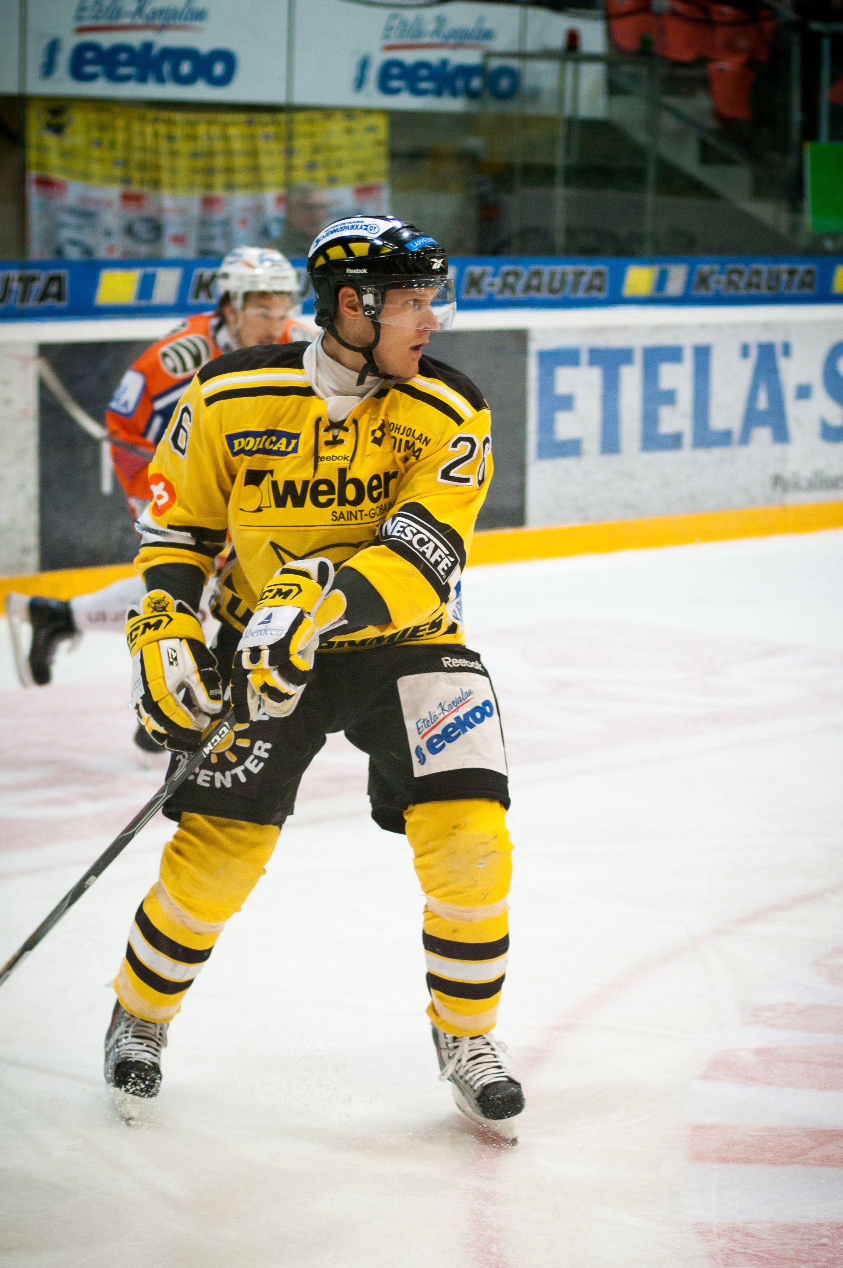 Finnish ice hockey player Joni Tuominen playing for SaiPa Lappeenranta against Tappara Tampere in the Finnish SM-liiga in Lappeenranta, Finland.